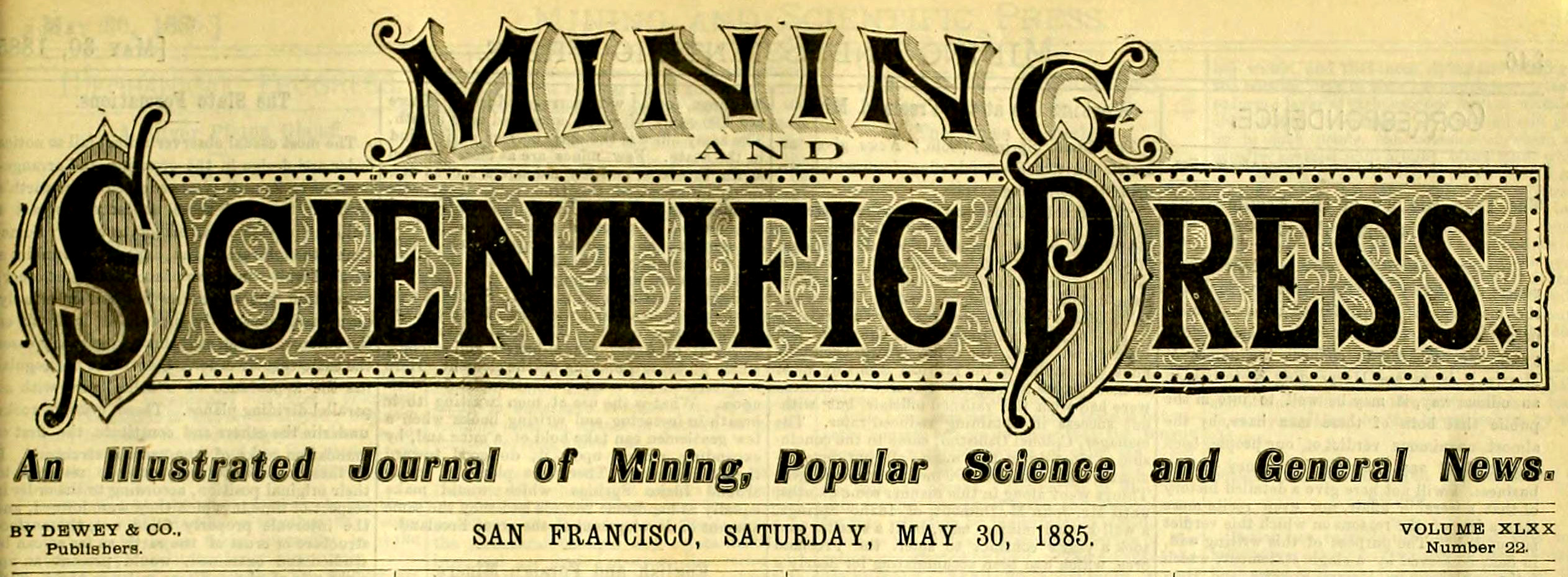 Nameplate of the Mining and Scientific Press, a former mining and miscellaneous science newspaper published in San Fransisco, California